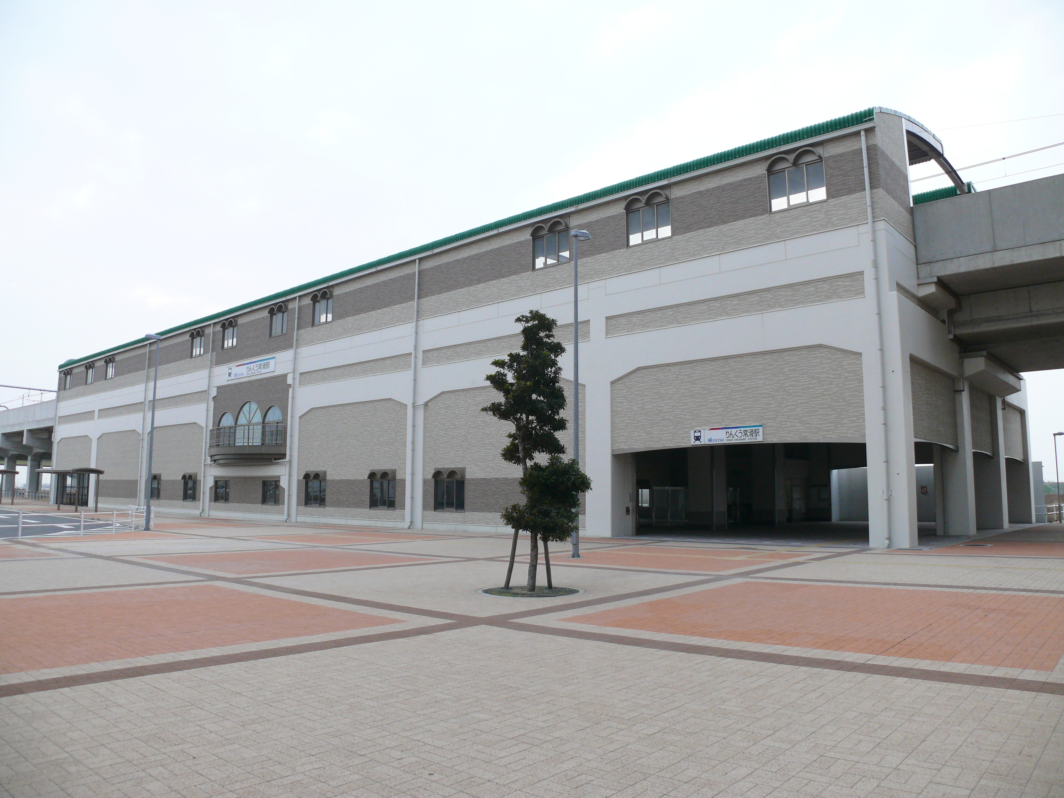 Meitetsu Rinku Tokoname Station.